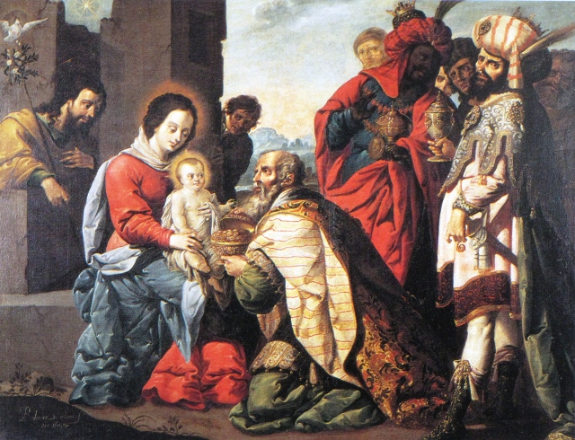 La Adoración de los Magos, 1659. Óleo sobre tela 153.8 cm x 197.5 cm. Figge Museo de Arte de Davenport, Iowa.